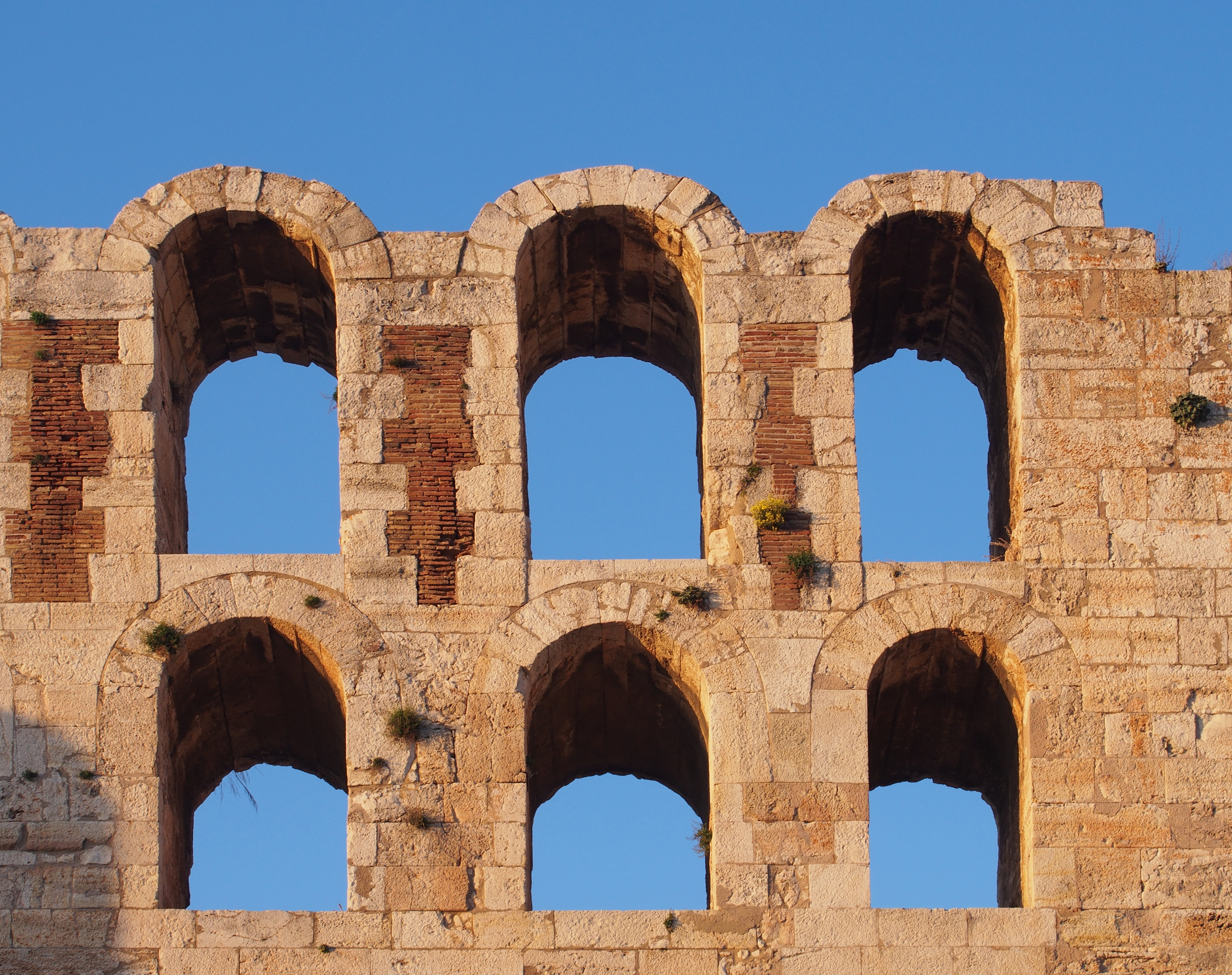 Detail of the facade of the Odeon of Herodes Atticus